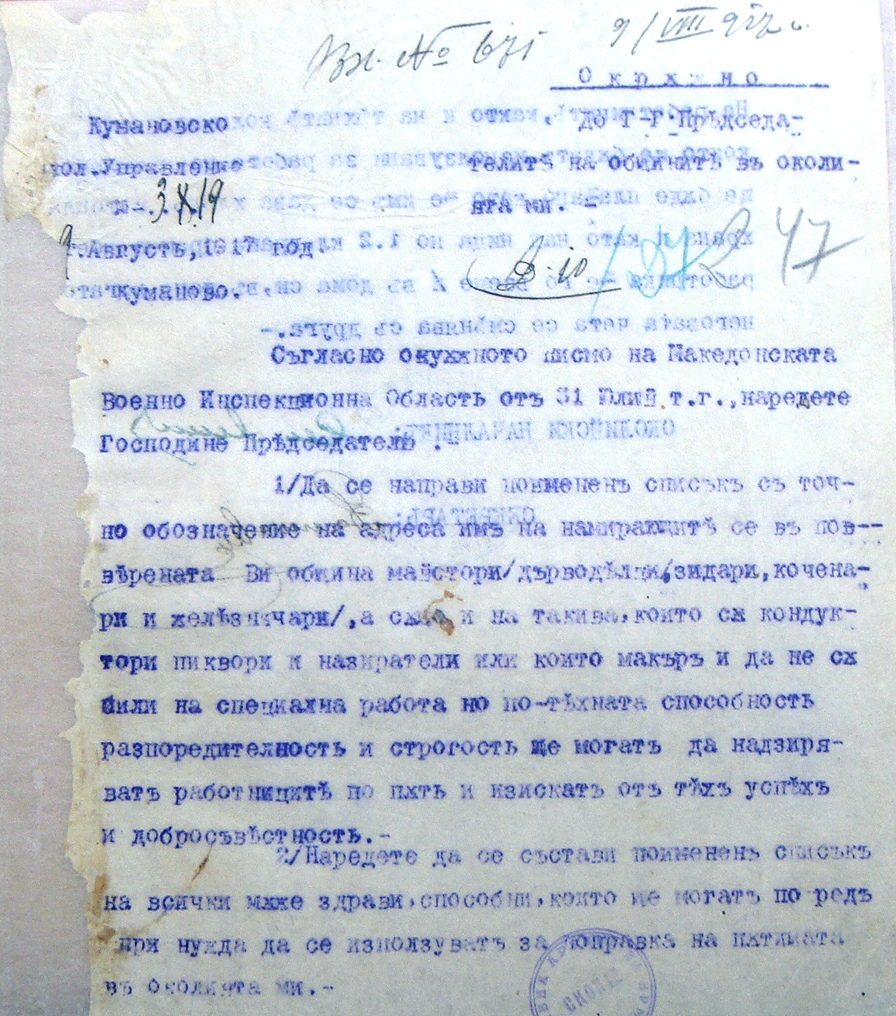 Request for capable workers from Kumanovo Area to work on repairing roads, and also masons, and railwaymen. (August 9, 1917) This media file is produced by Wikipedian in Residence in Category:Wikipedian in Residence at DARM in 2016.